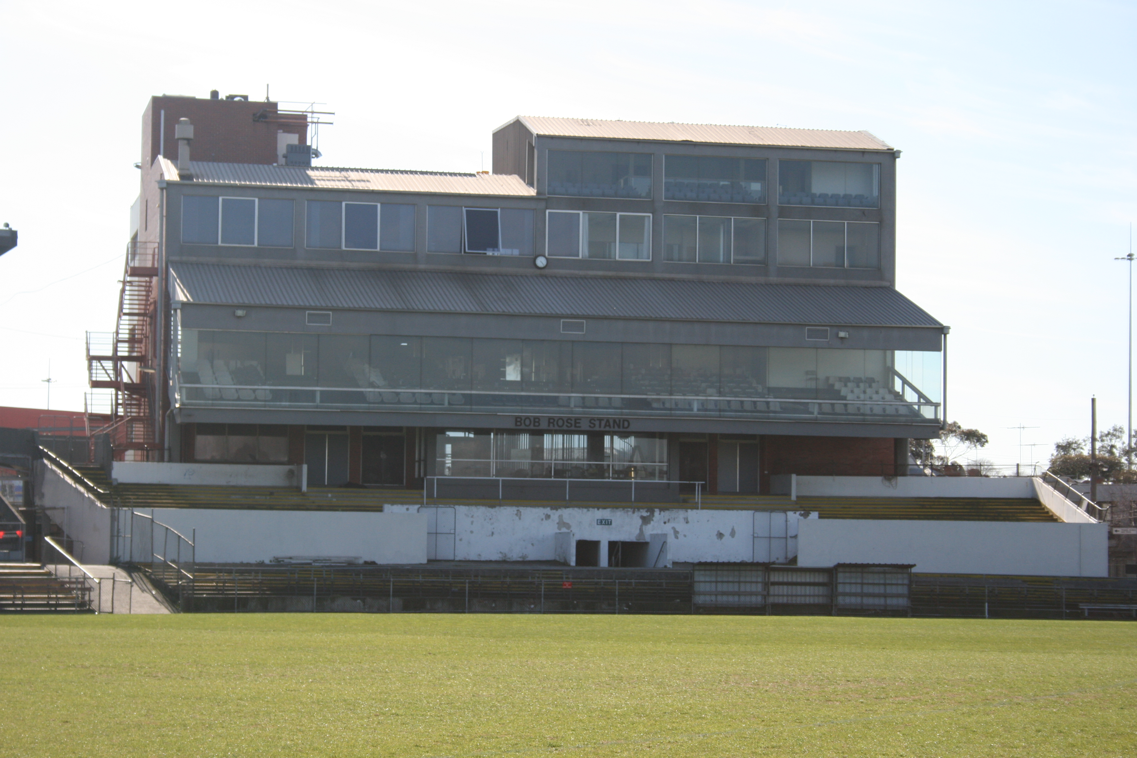 Photo of the Bob Rose Stand at Victoria Park